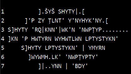 Kandahar Aramaic inscription. Source for the text of the inscription: Une nouvelle inscription araméenne d'Asoka découverte à Kandahar (Afghanistan) Dupont-Sommer, André Comptes rendus des séances de l'Académie des Inscriptions et Belles-Lettres Année 1966 110-3 pp. 440-451 [1]